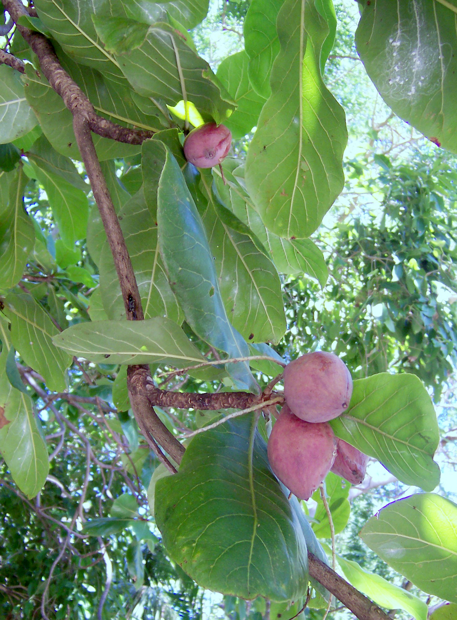 fruits of Terminalia catappa